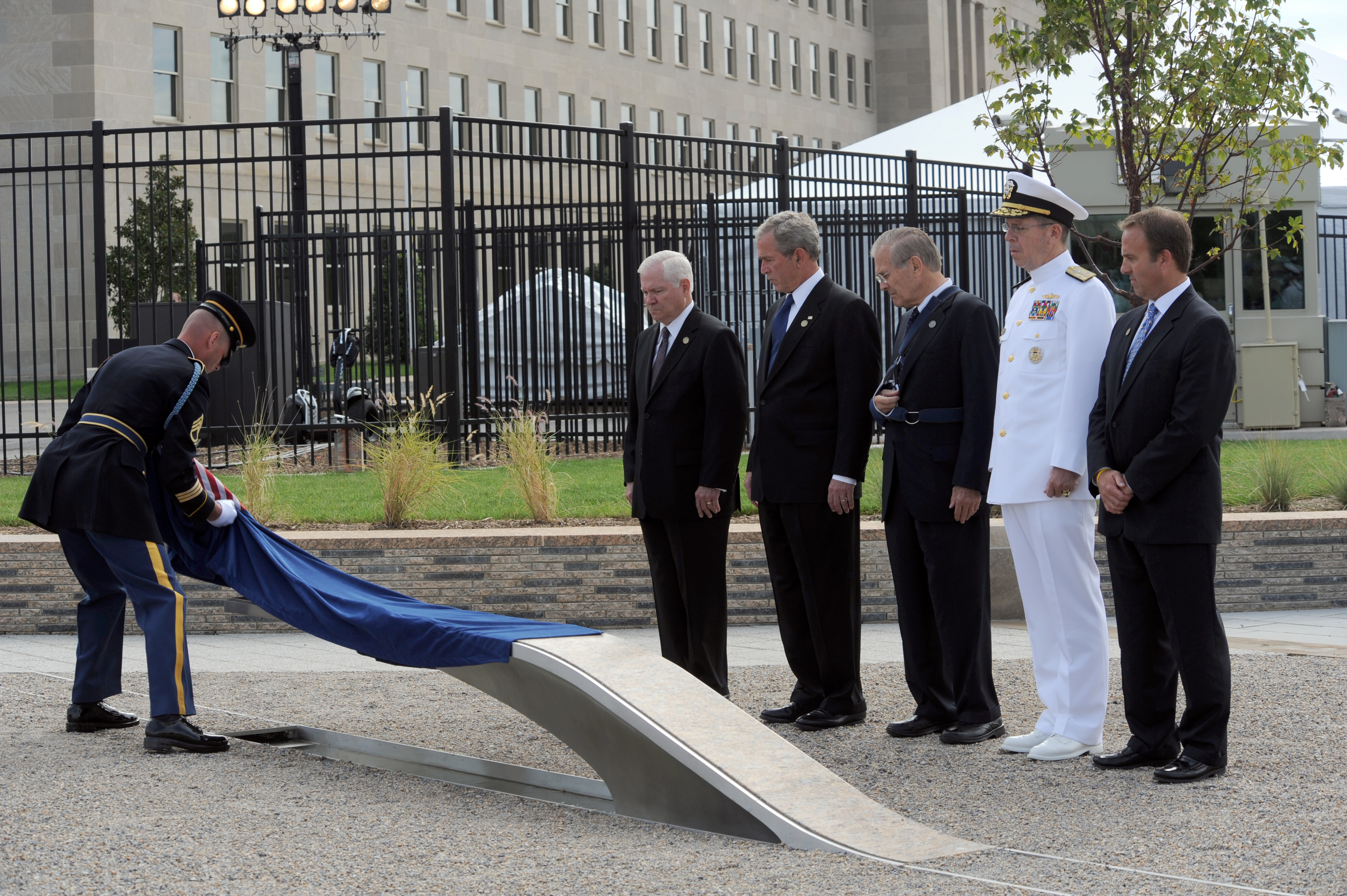 The official party watches as the first inscribed memorial unit is unveiled at the Pentagon Memorial dedication ceremony on Sep 11, 2008. The site contains 184 inscribed memorial units honoring the 59 people aboard American Airlines Flight 77 and the 125 in the Pentagon who lost their lives on Sept. 11, 2001.